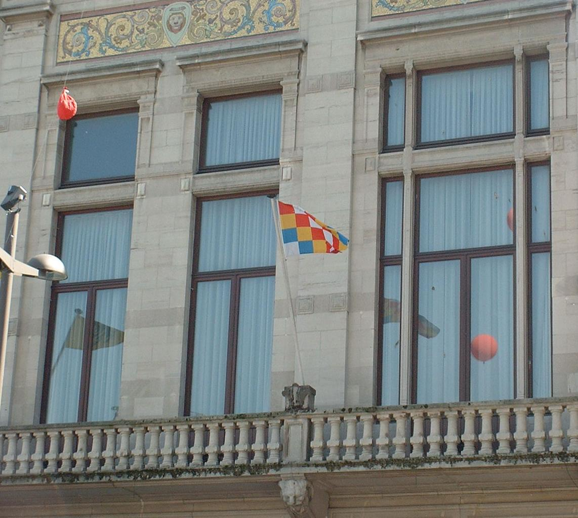 Flag of Antwerp Province, Flanders Congress & Concert Centre